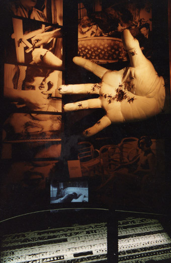 Surreal cinema was just one of the many creative uses of film displayed within MOMI.